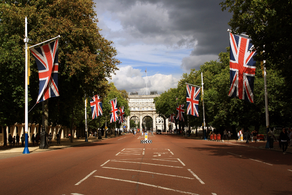 The Mall, London